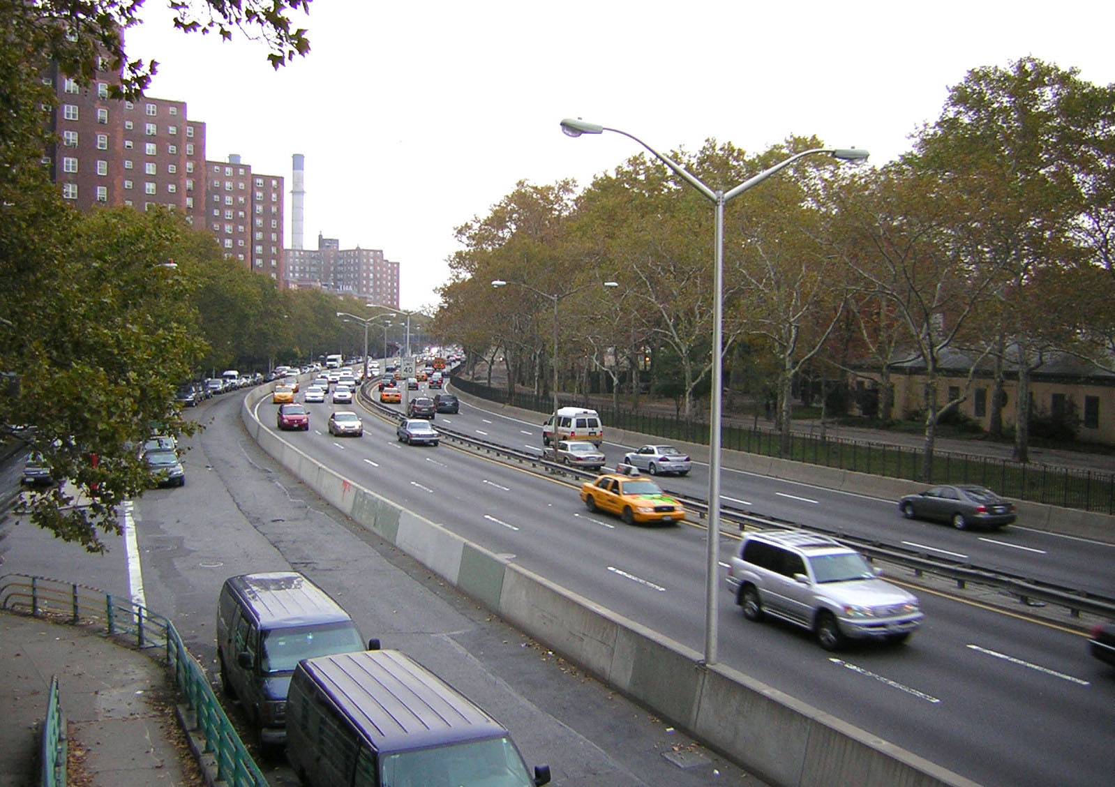 Franklin D. Roosevelt East River Drive, looking north from 6th Street pedestrian overpass between East 5th and East 6th Street, on a wet afternoon. Park house of East River Park and Con Edison 14th Street plant in background.